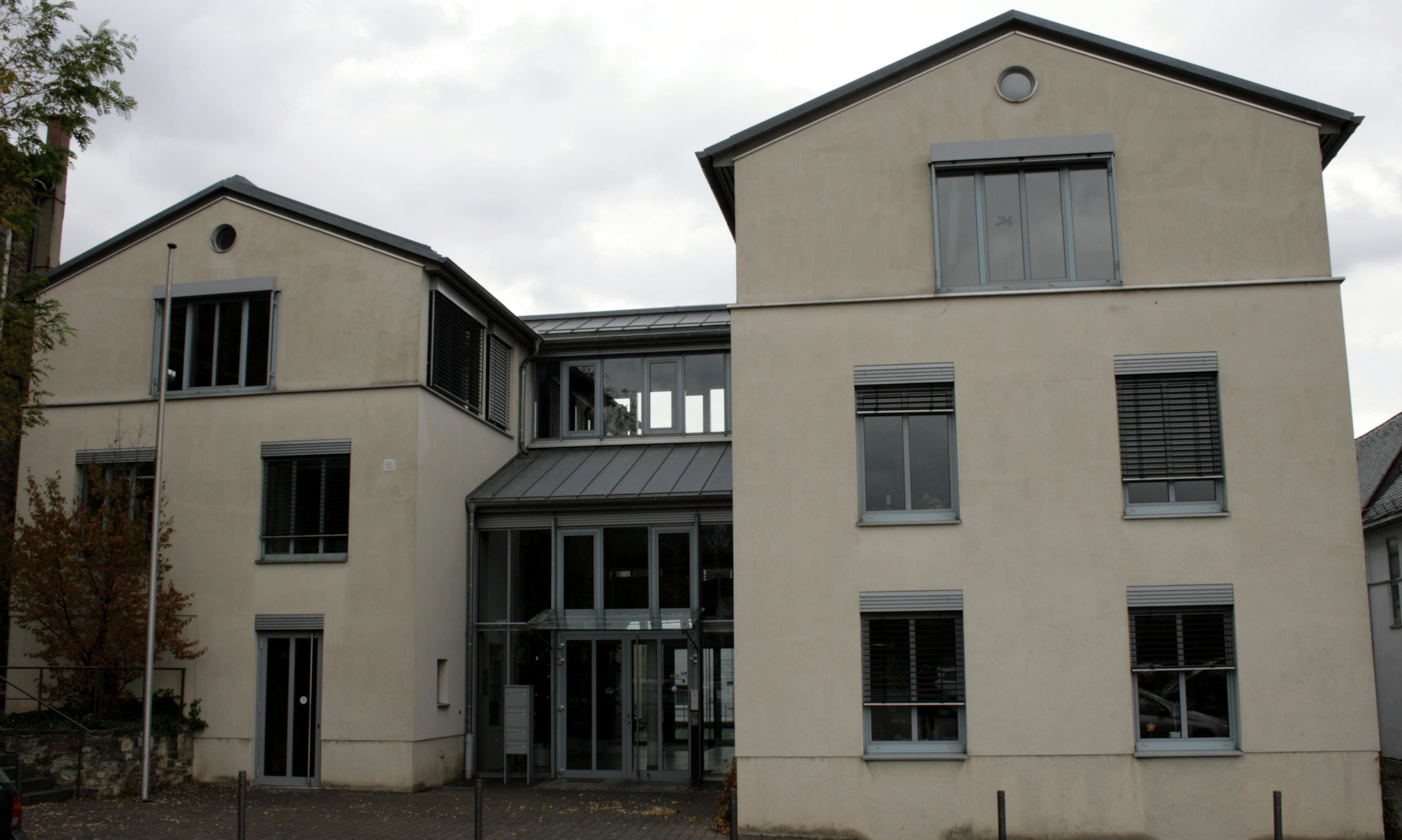 Neuer Trakt des Rathauses in Elz, Deutschland